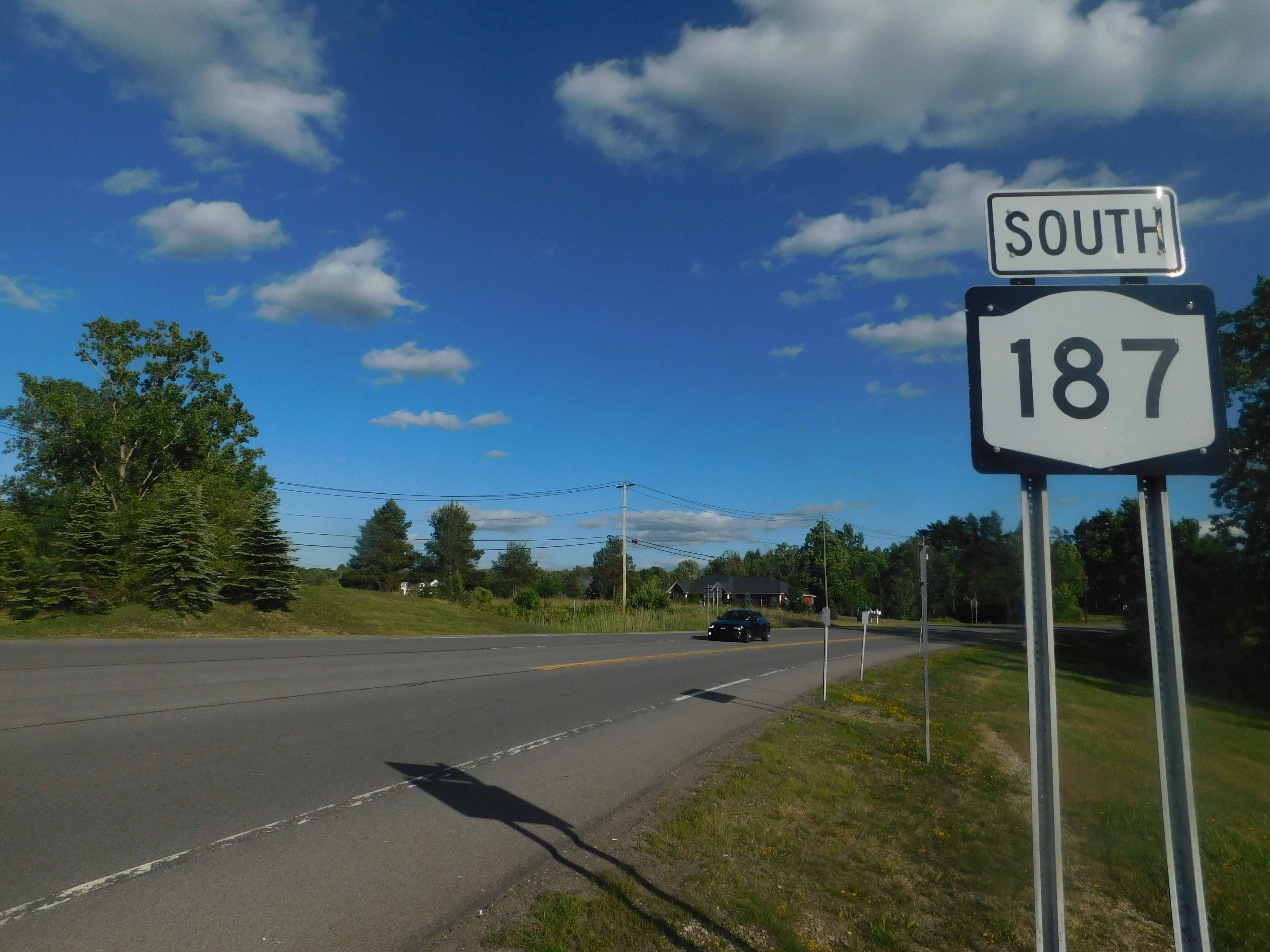 New York State Route 187 running south of U.S. Route 20 in Orchard Park, New York.